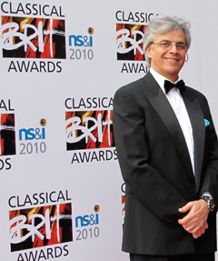 Stefano Mainetti Brit Awards Picture